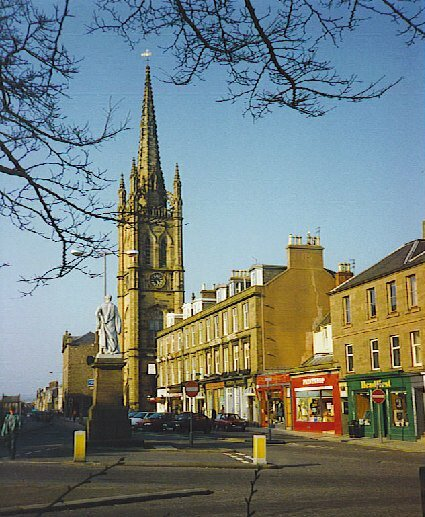 The Steeple, Montrose.